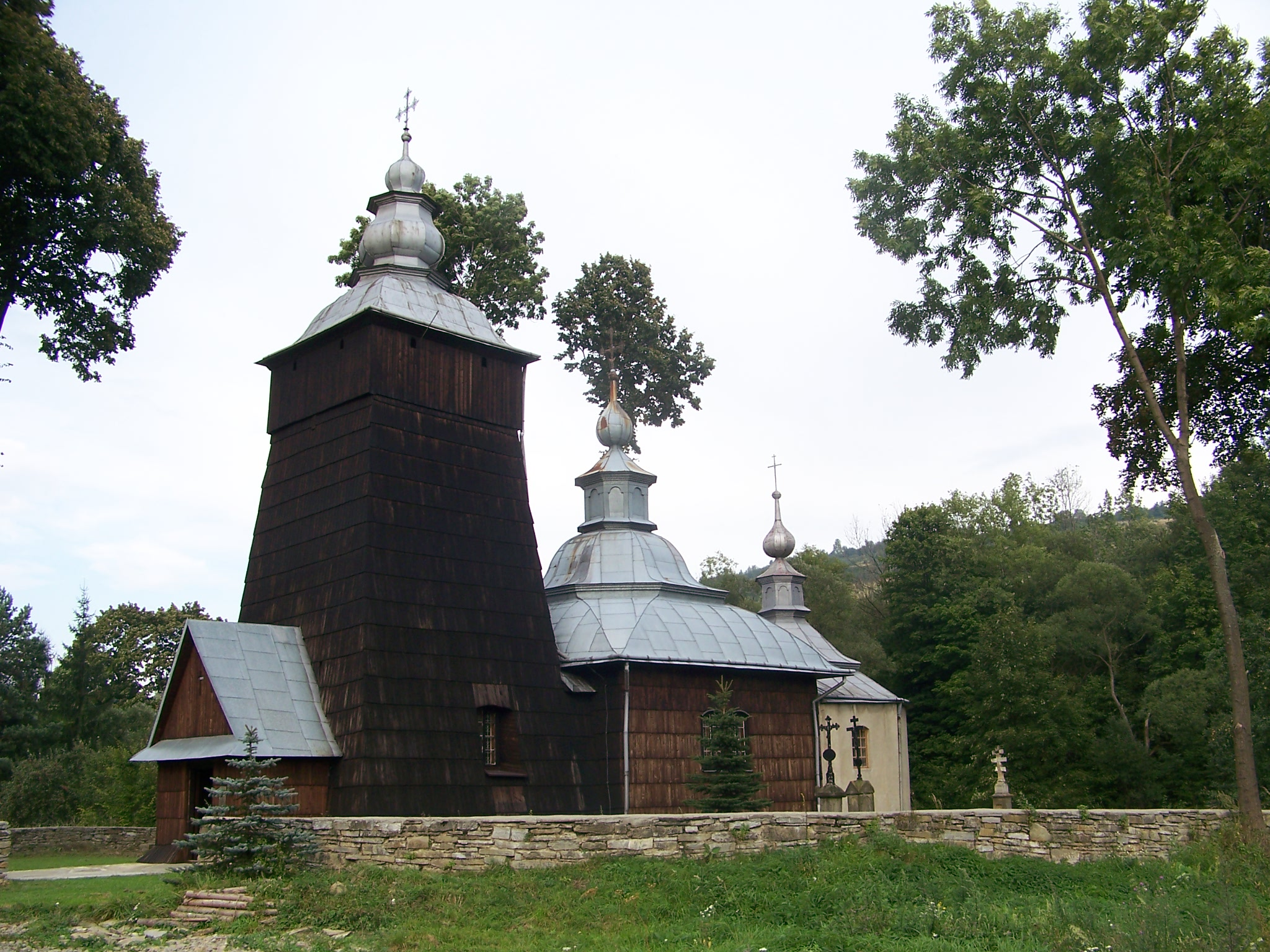 Ex-Orthodox church in Chyrowa, Poland